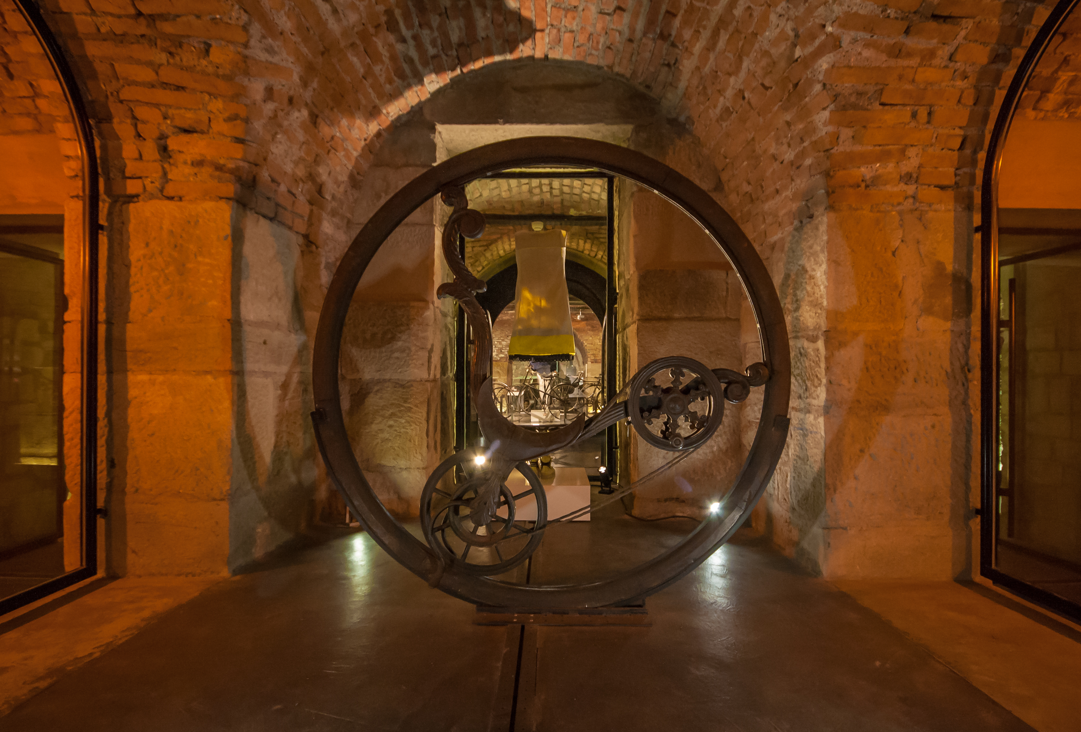 Unicycle rider inside (wood). Cycles' Department in Saint-Étienne, Museum of Art and Industry.